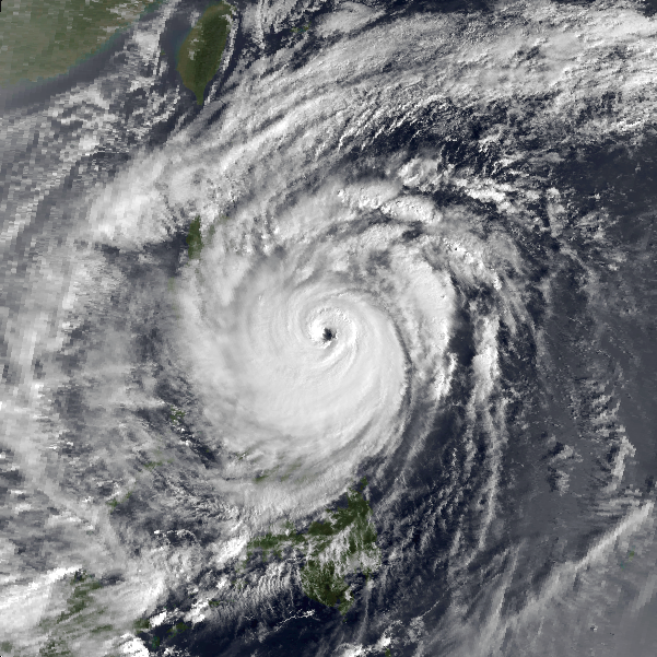 Typhoon Betty on November 3, 1980